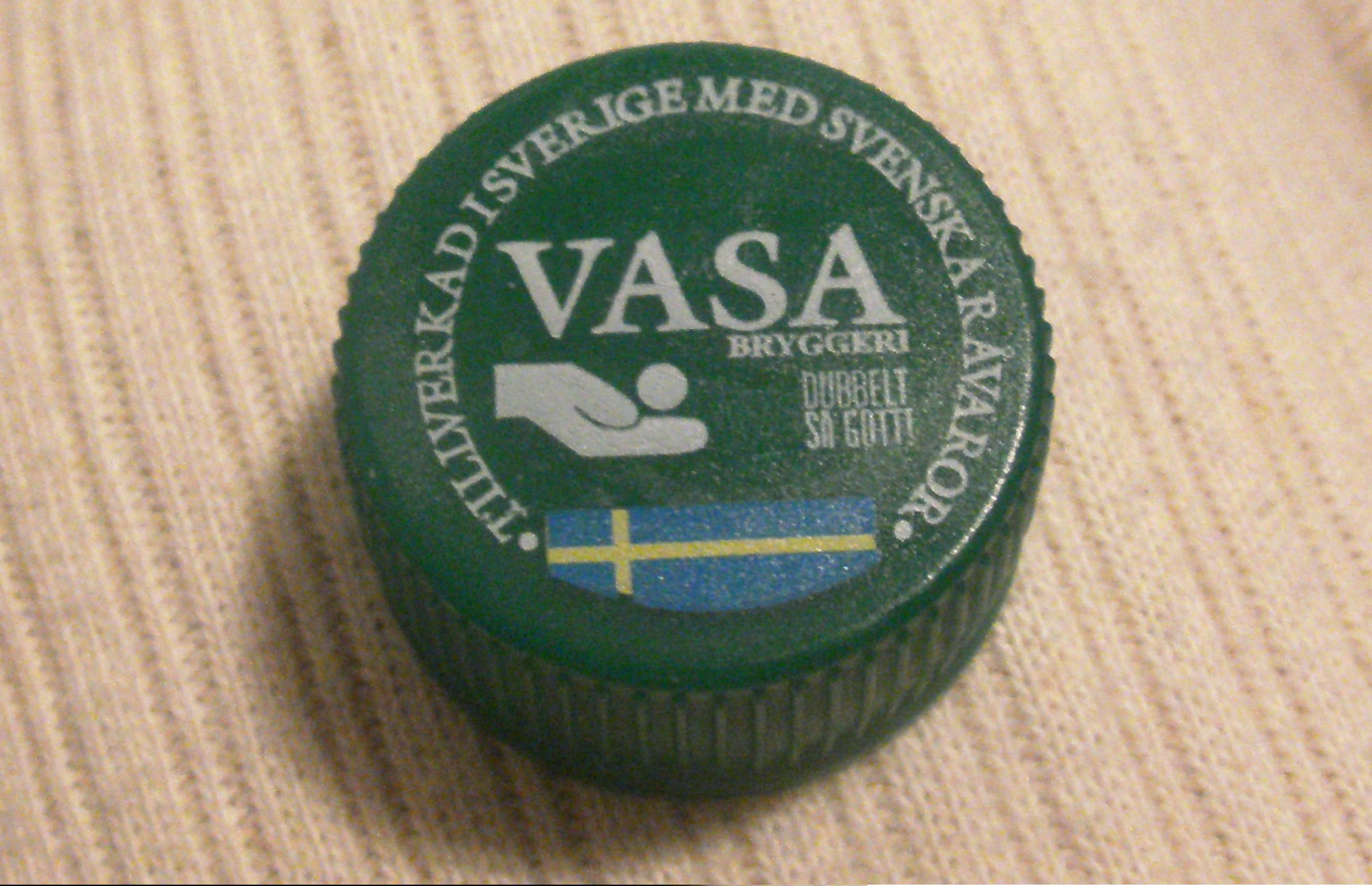 A cap from a bottle of Loranga, a swedish soft drink by Vasa Bryggeri. The cap displays the company's logo.